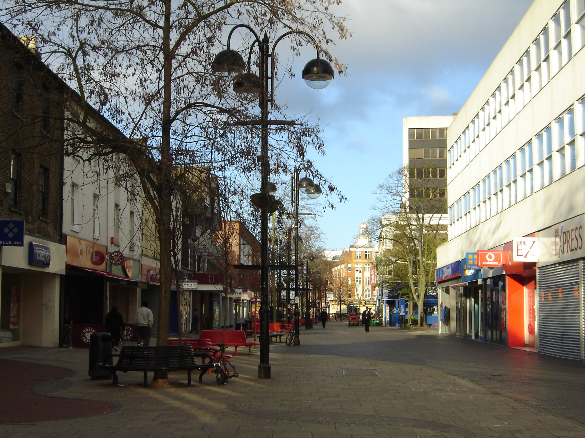 View of Hounslow High Street taken early in the morning to avoid crowds